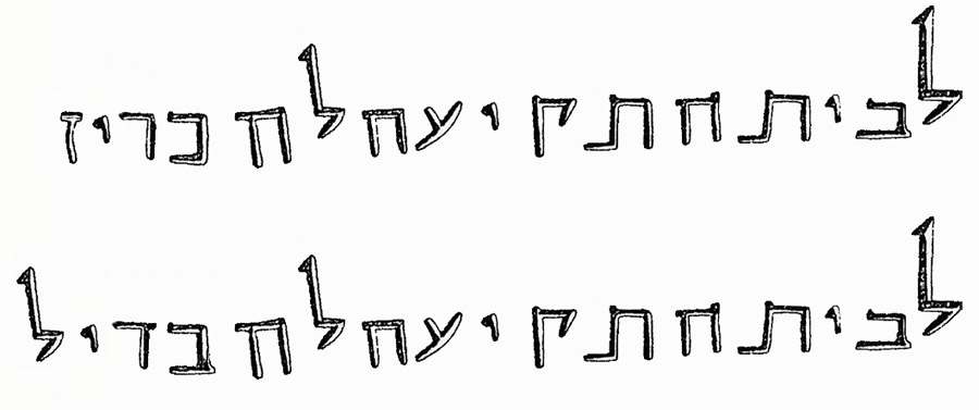 to the trampeting place - options